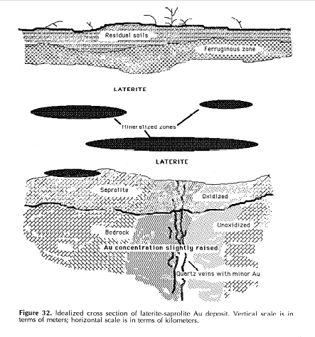 This is an idealized cross section of laterite and saprolite layers.